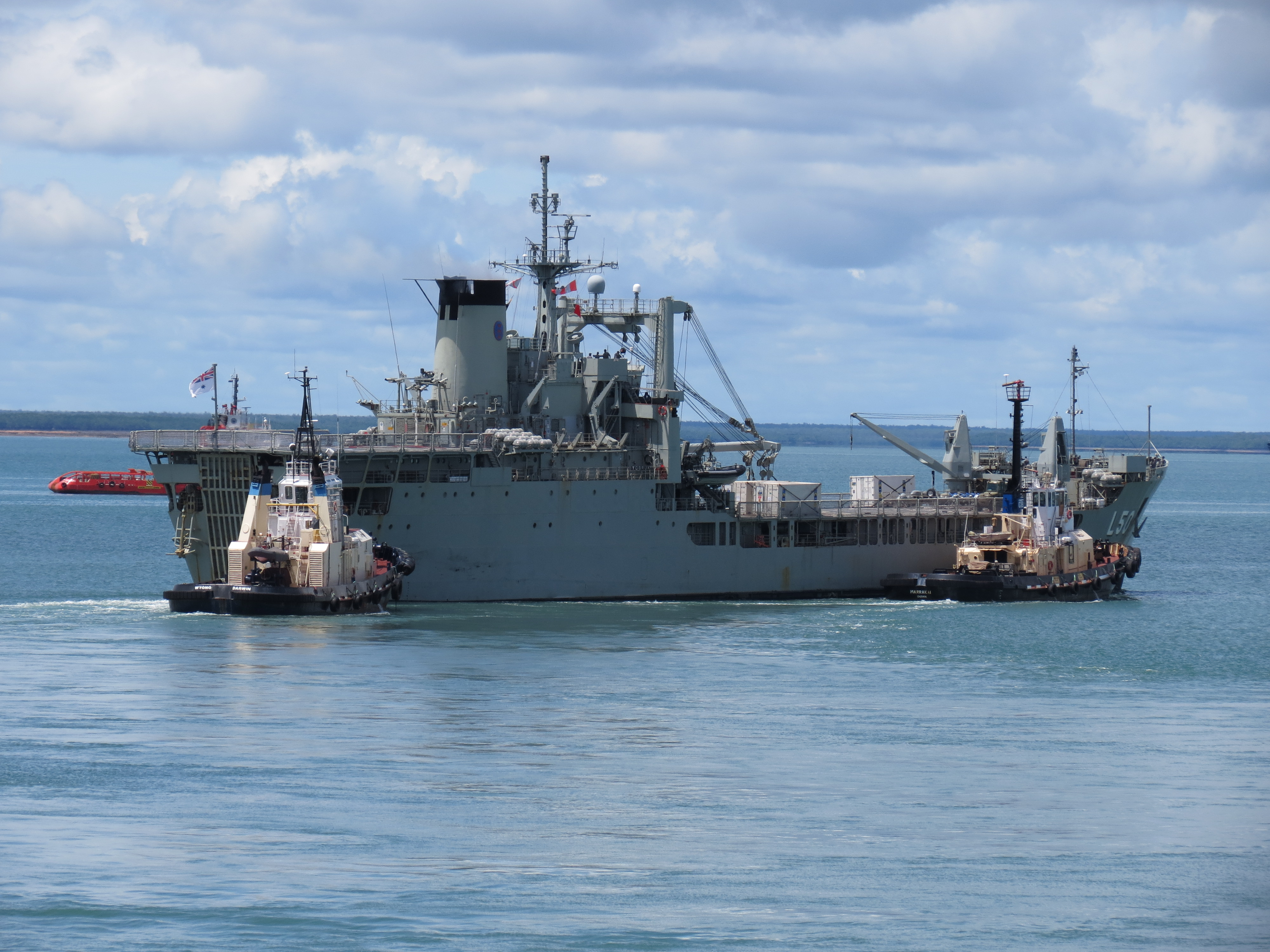 Assisted by the CTB tugs Wyong and Marrakai, HMAS Tobruk departs Darwin's Fort Hill Wharf. The tugs have Tobruk ready to proceed under its own power.